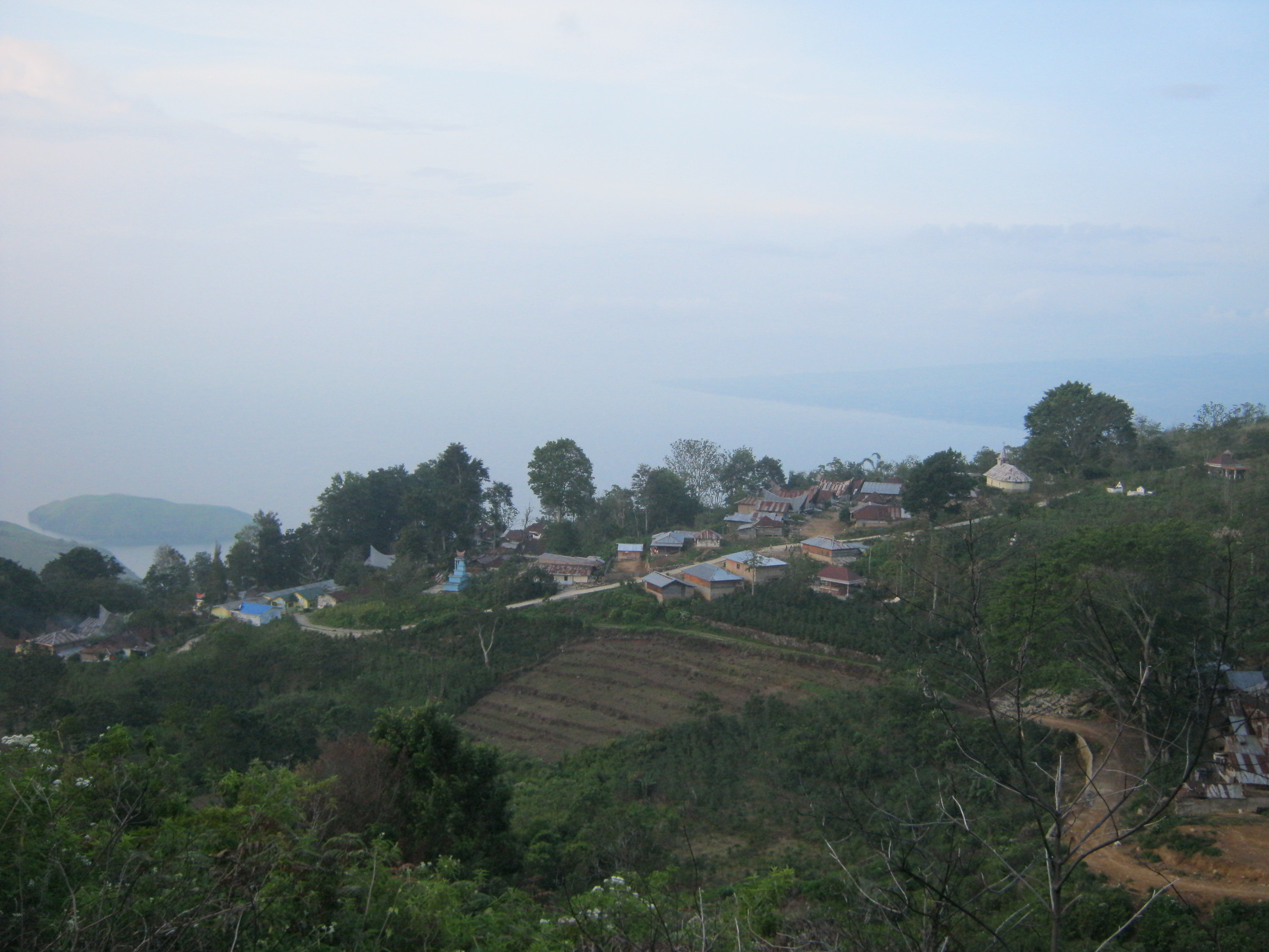 Wardi - Sagala Hutaginjang